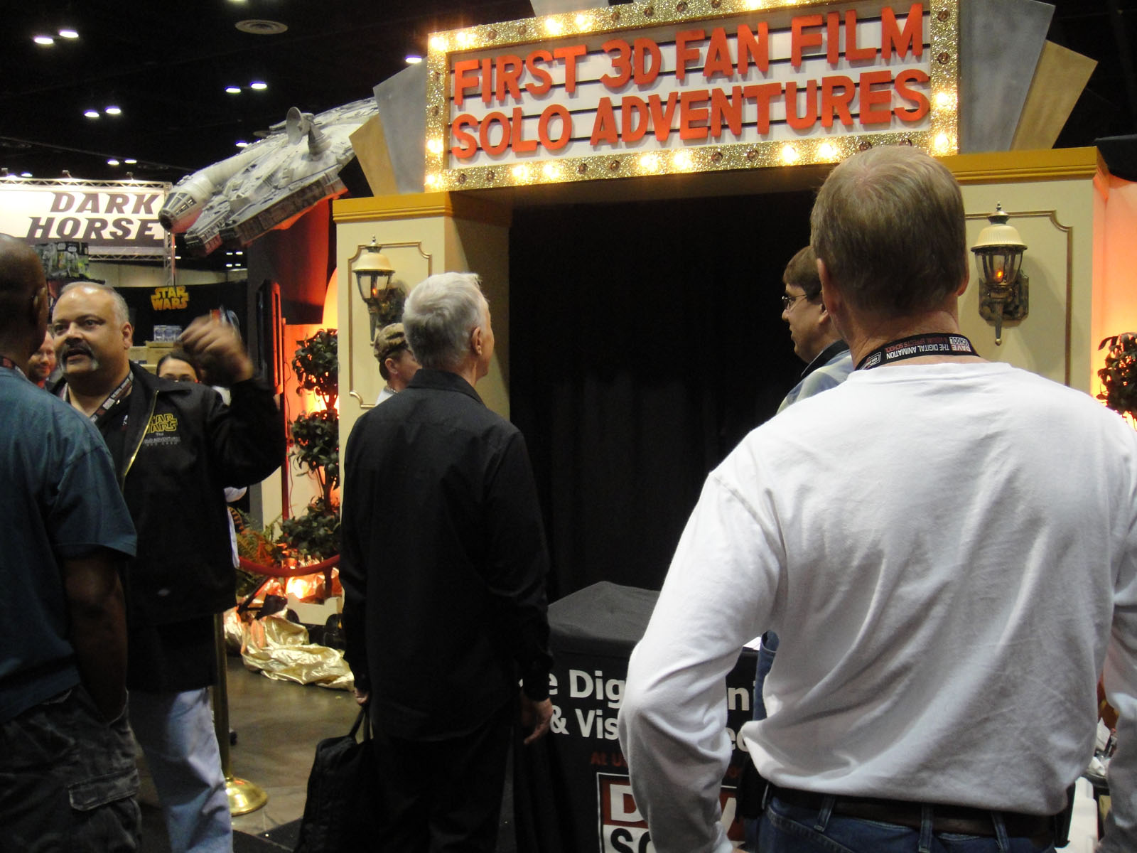 Star Wars Celebration V - Anthony Daniels at the 3D fan film Solo Adventures booth